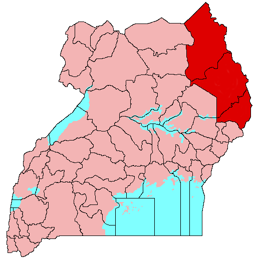 Ugandan region of Karamoja and its districts Created by editing picture